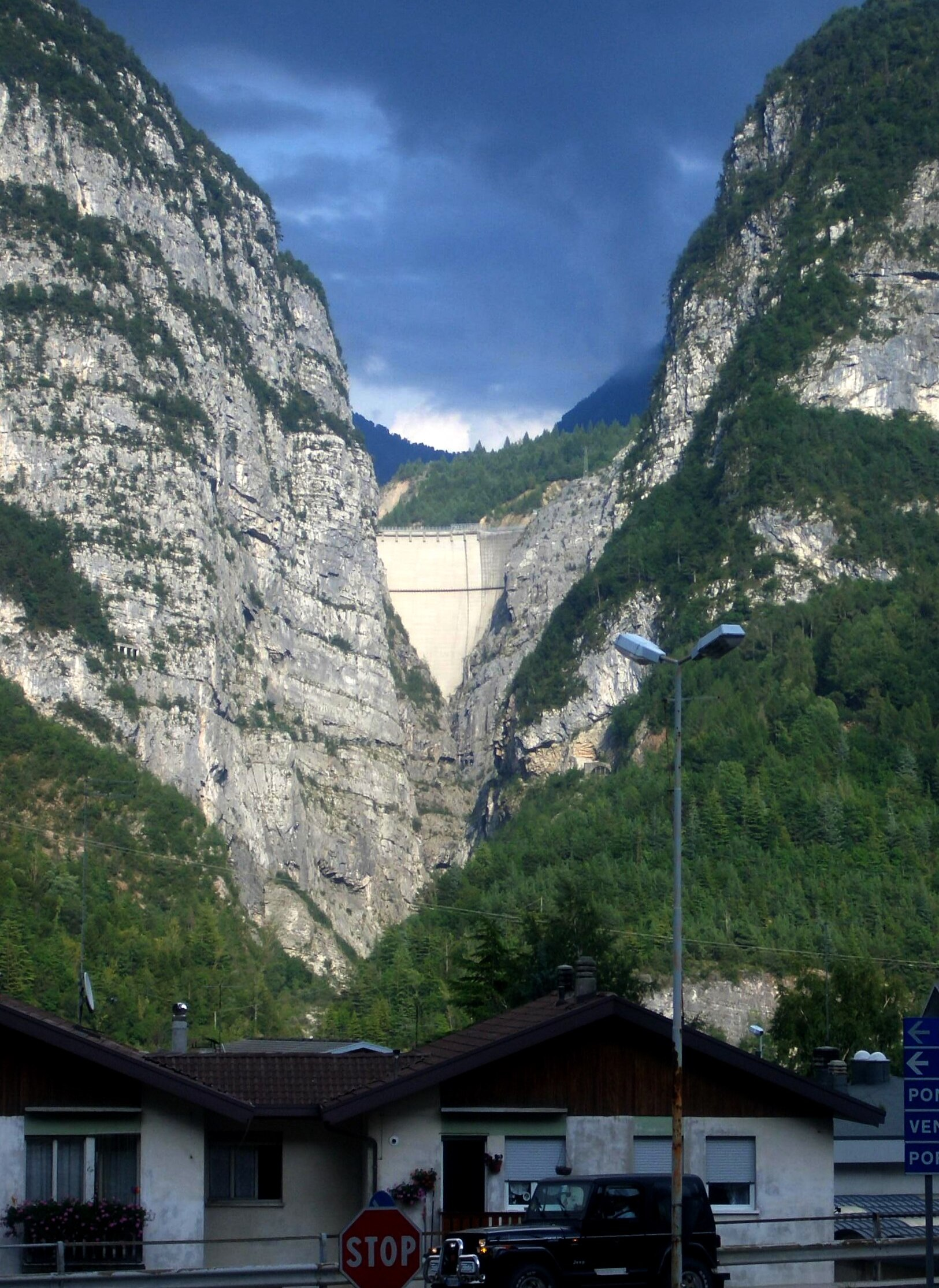 Vajont dam